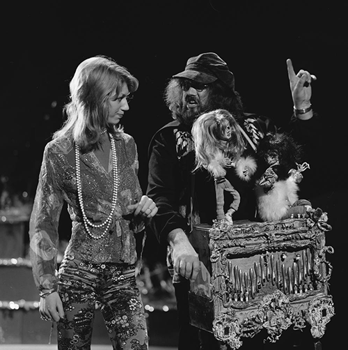 Mouth & MacNeal in AVRO's TopPop (Dutch television show) in 1974